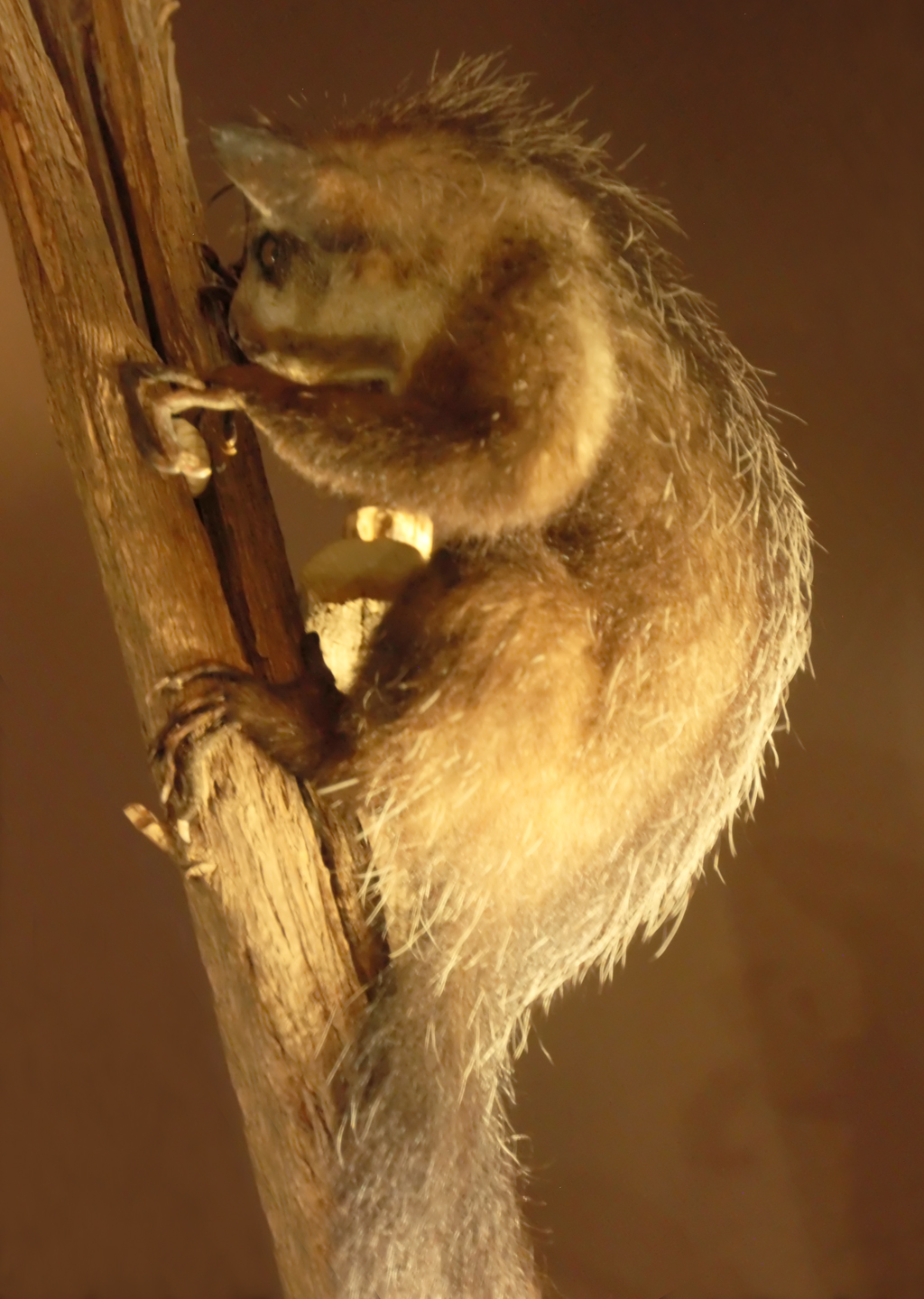 Aye-aye (Daubentonia madagascariensis) at the Muséum national d'histoire naturelle, Paris.